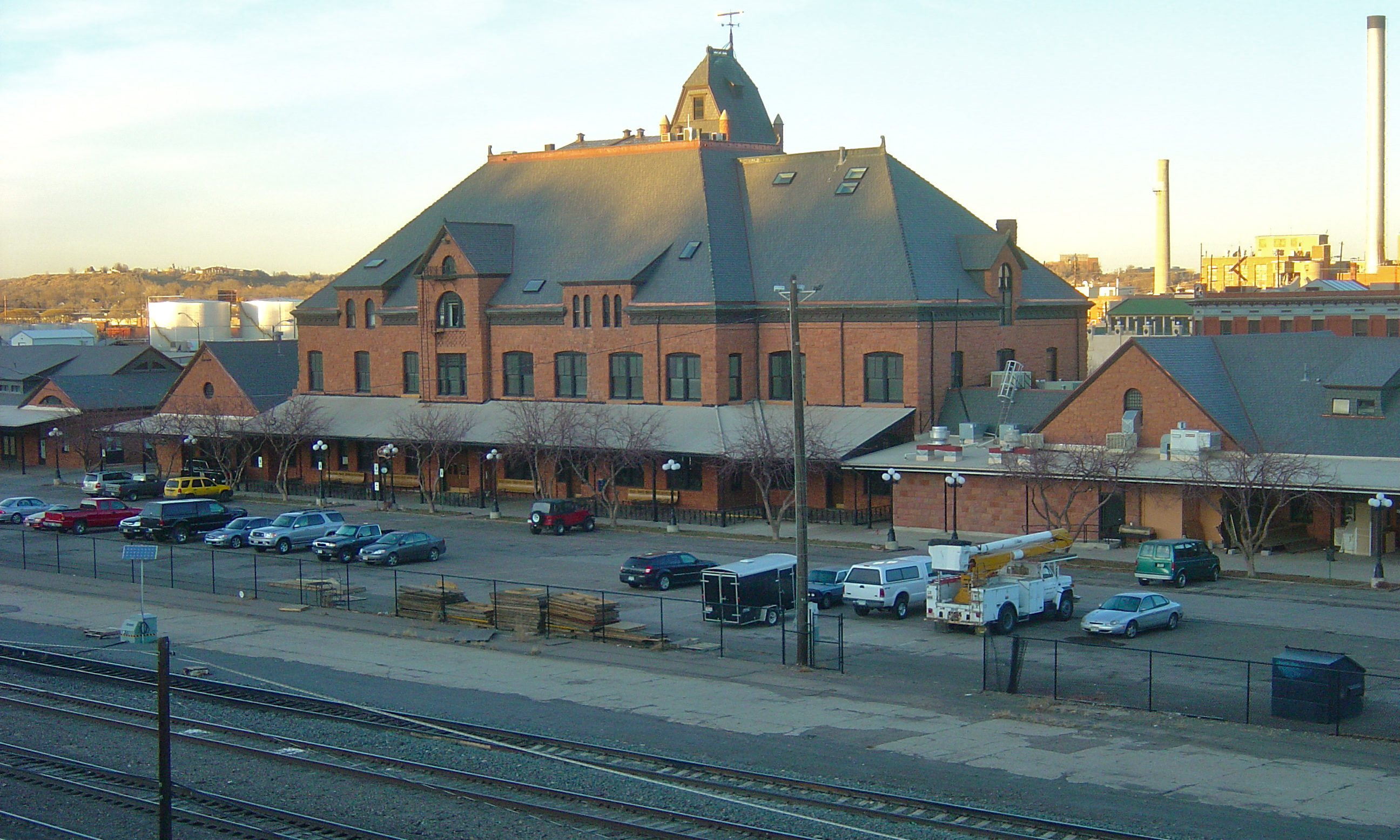 A picture of the back of Pueblo Union Depot, Shows loading and unloading used when active.